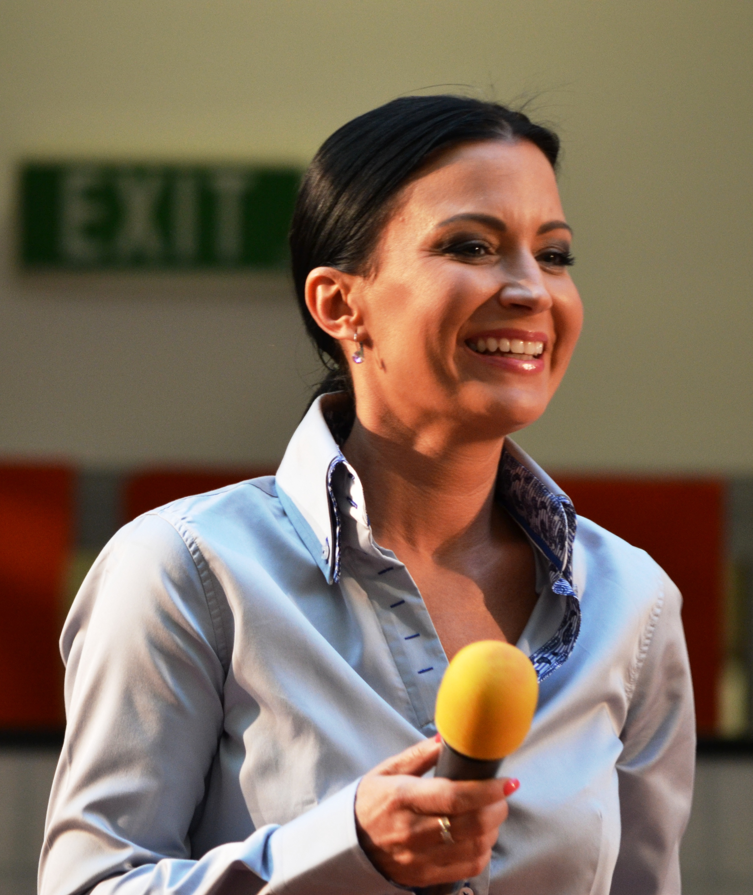 Gábina Partyšová, Czech presenter